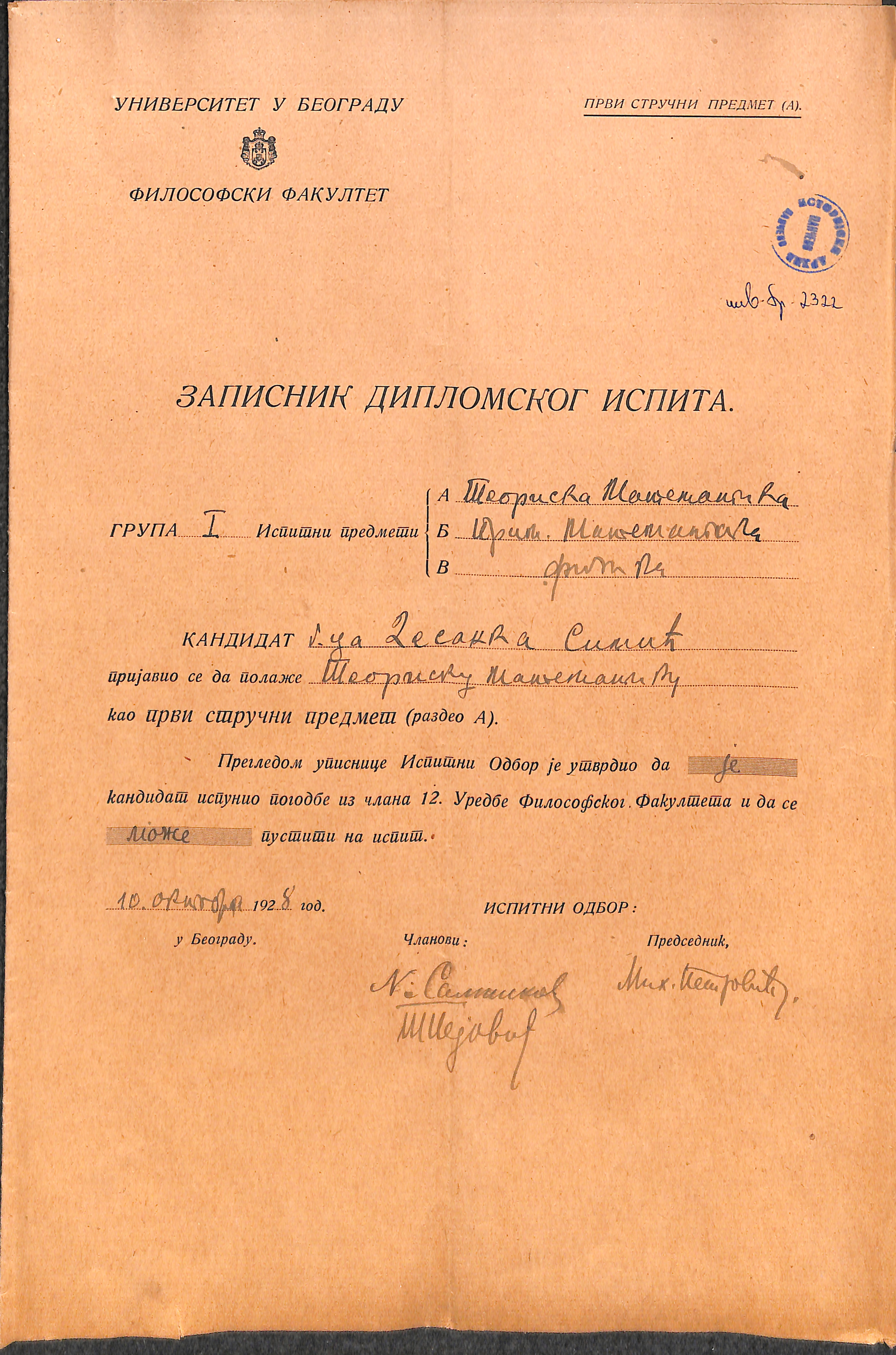 Proceedings of the diploma examination of the Faculty of Philosophy, where Mihailo Petrović Alas was the chairman of the commission